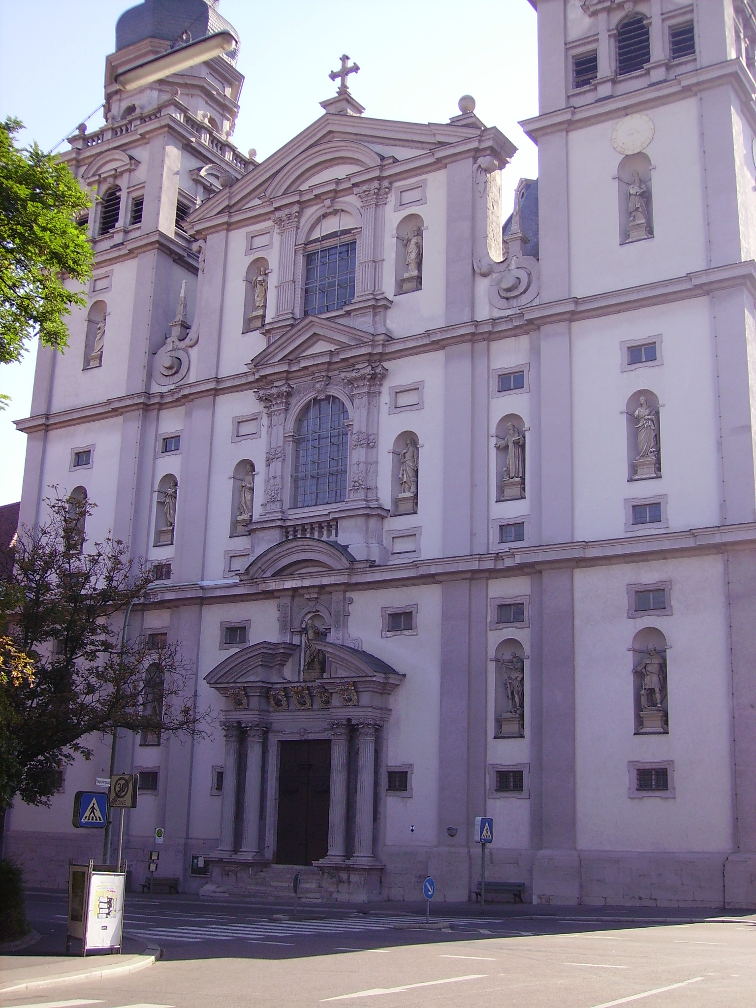 Facade of Haug Church, Würzburg